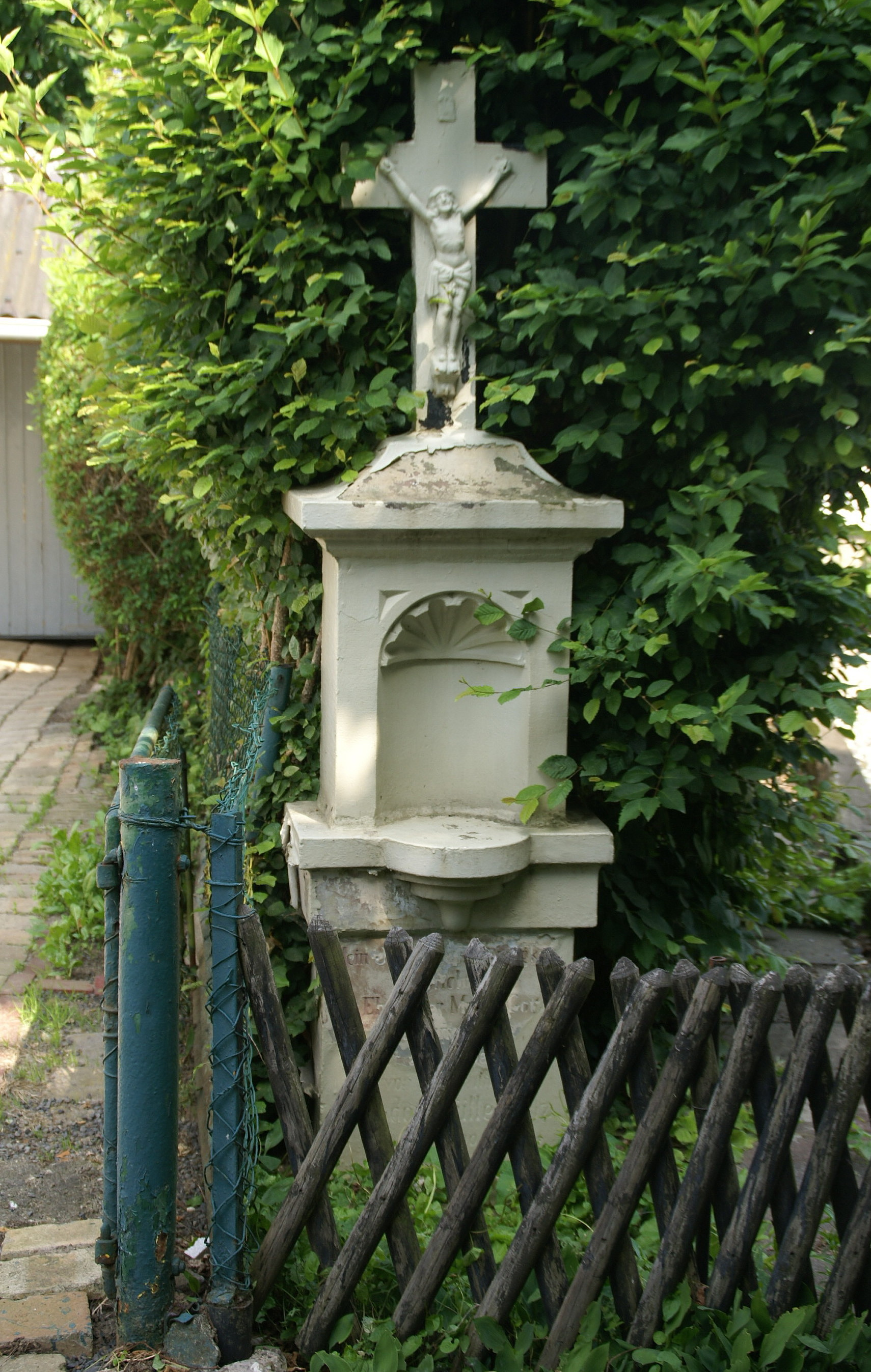 Wayside cross in Hasenboseroth, Pelzerweg 3